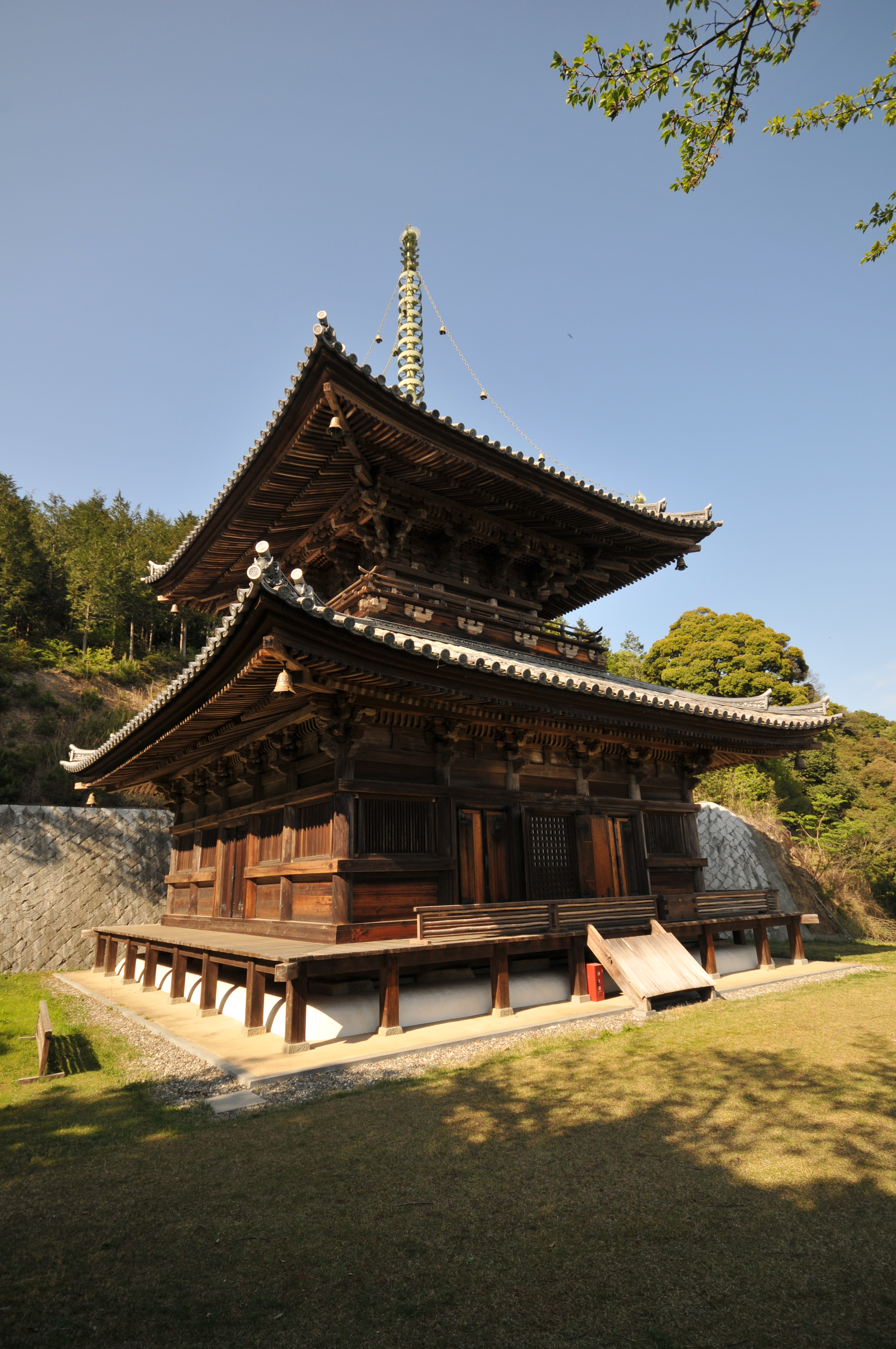 Daitō pagoda(Japan's national important cultural property), Kirihata-ji, Awa City, Tokushima, Japan